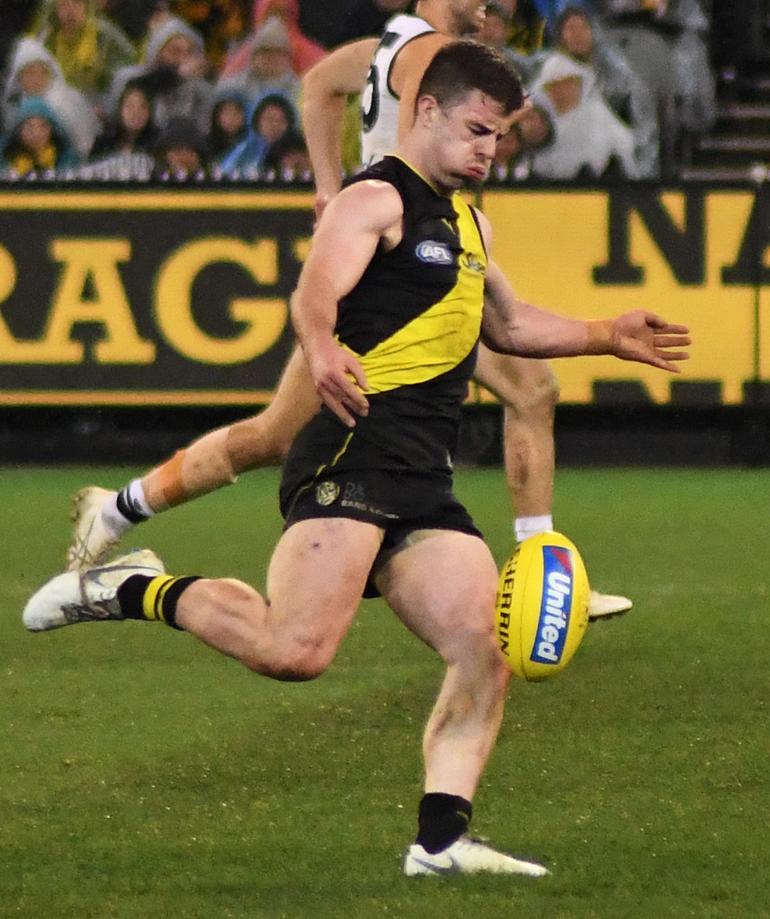 Jack Higgins of Richmond kicking during the 2018 AFL round 20 match between Richmond and Geelong at the Melbourne Cricket Ground on Friday, 3 August 2018 in Melbourne, Victoria.